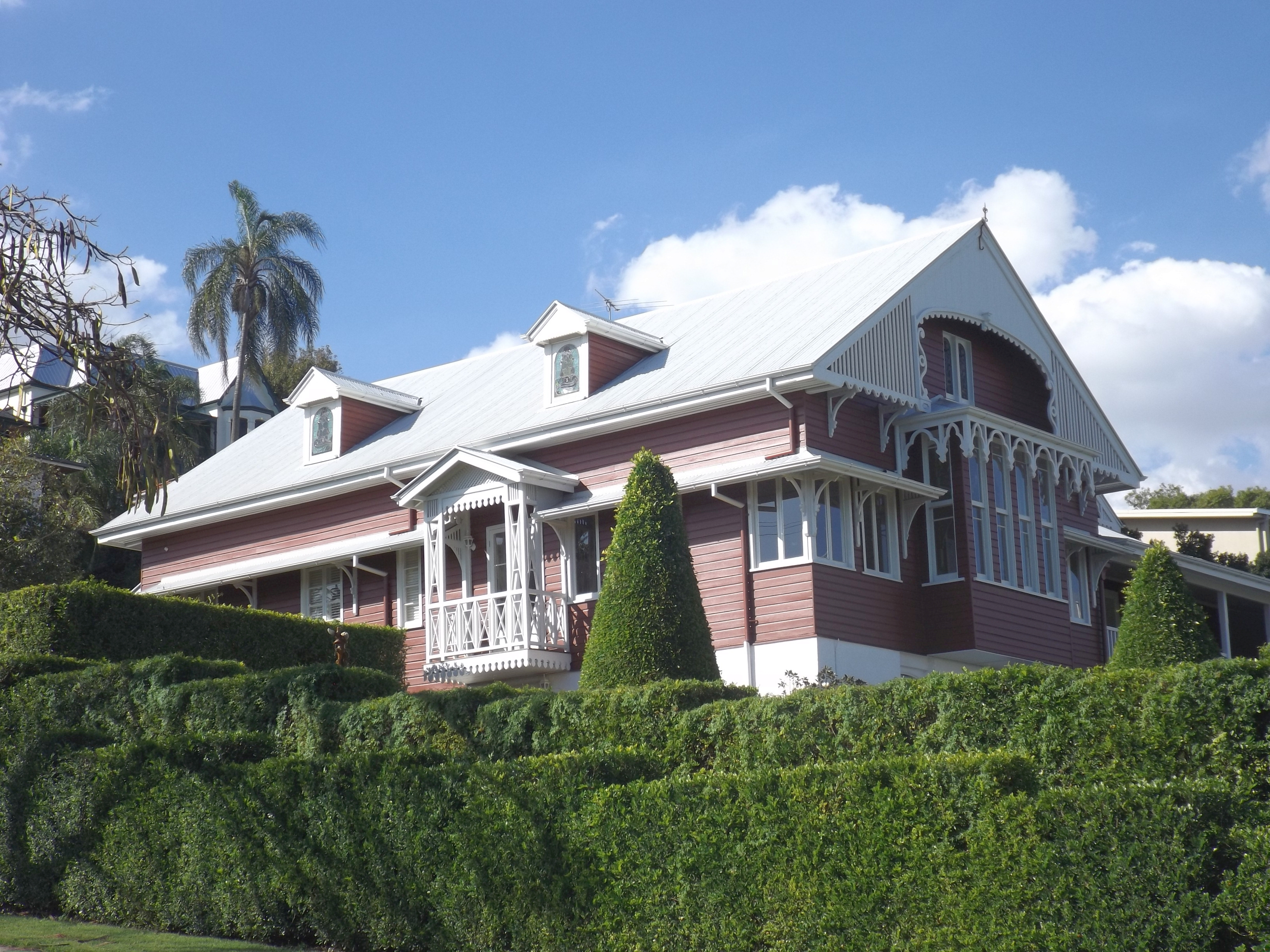 Photo of Lochiel residence at Hamilton, Brisbane, Queensland, Australia.